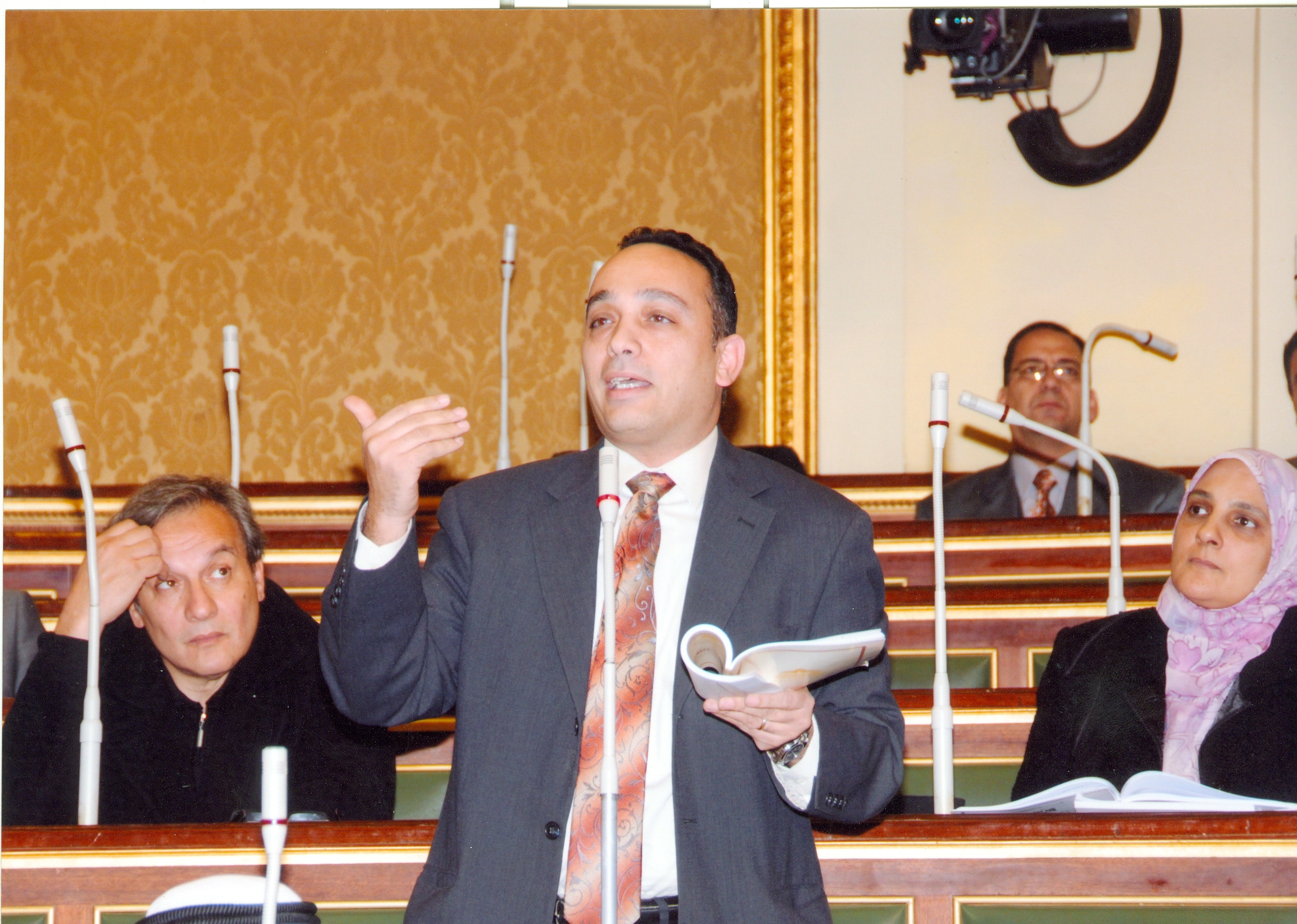 Dr.Freddy Elbaiady , member of the Egyptian Parliament , Shura council, upper house of the parliament, د.فريدي البياضي عضو البرلمان المصري (مجلس الشورى)